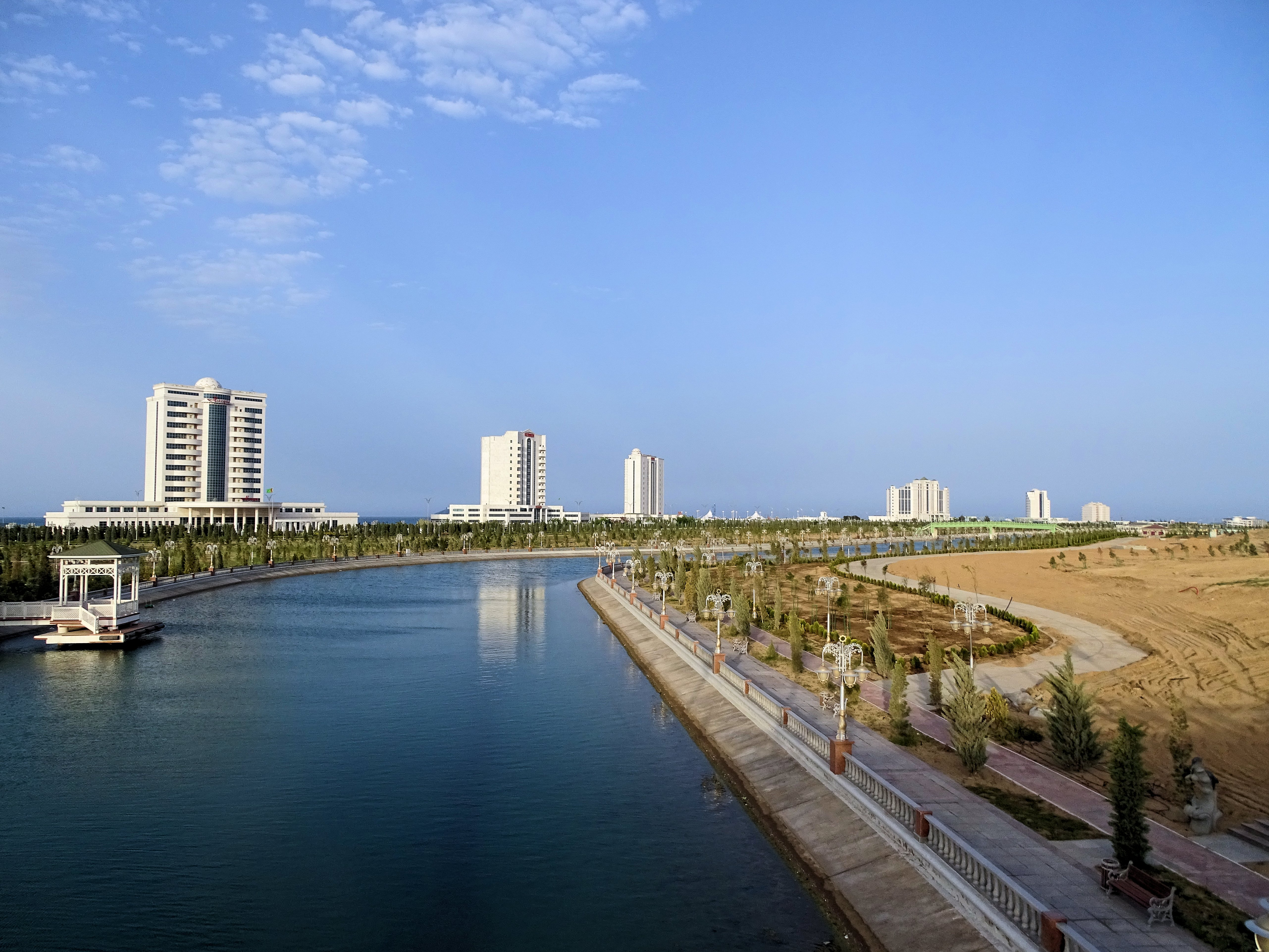 Six of the hotels in the Avaza resort area located between an artificial canal and the Caspian Sea, near Turkmenbashi, Turkmenistan.